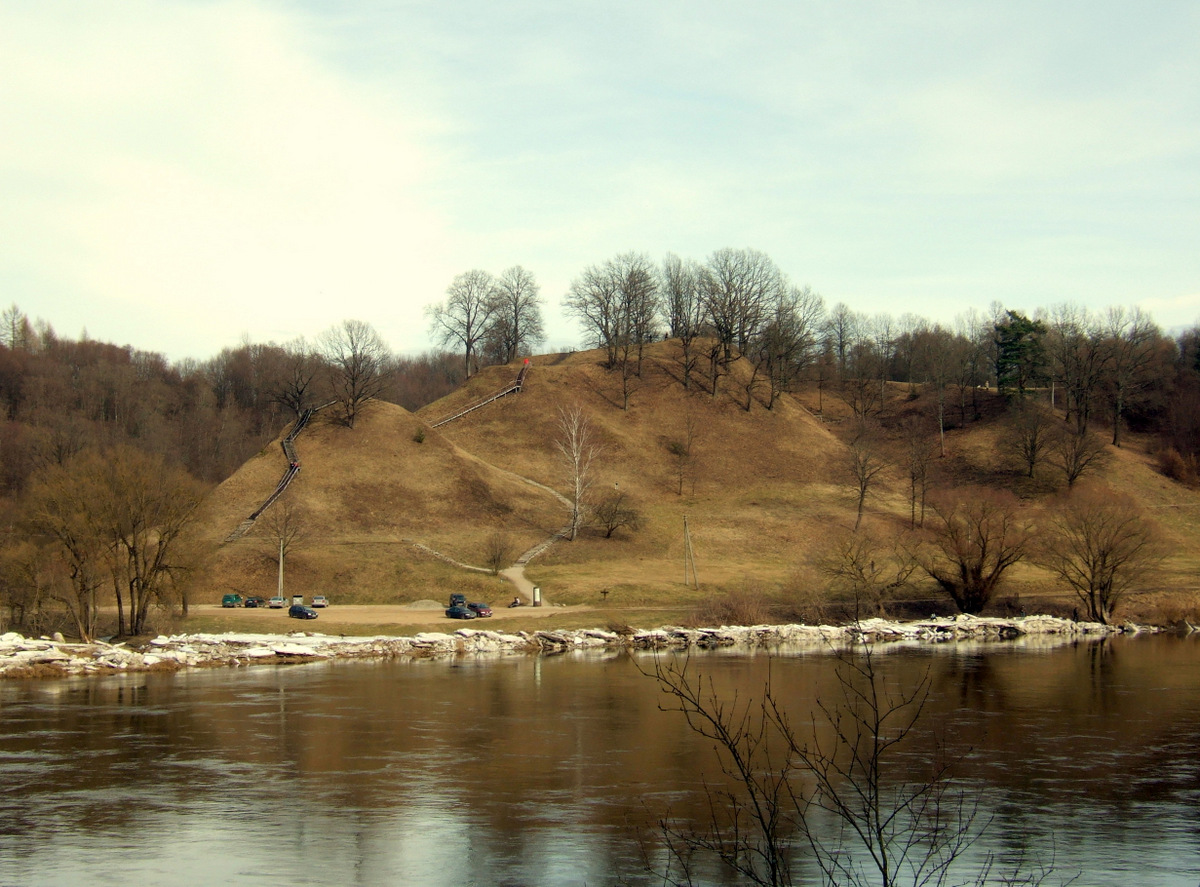 Hill fort of Alytus